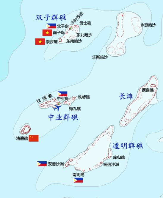 Thitu Island and Reefs